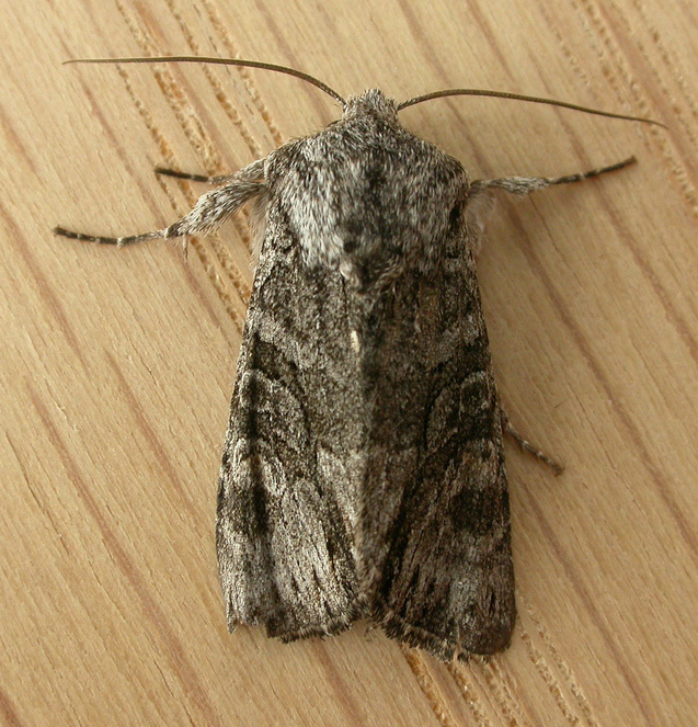 Neumichtis expulsa